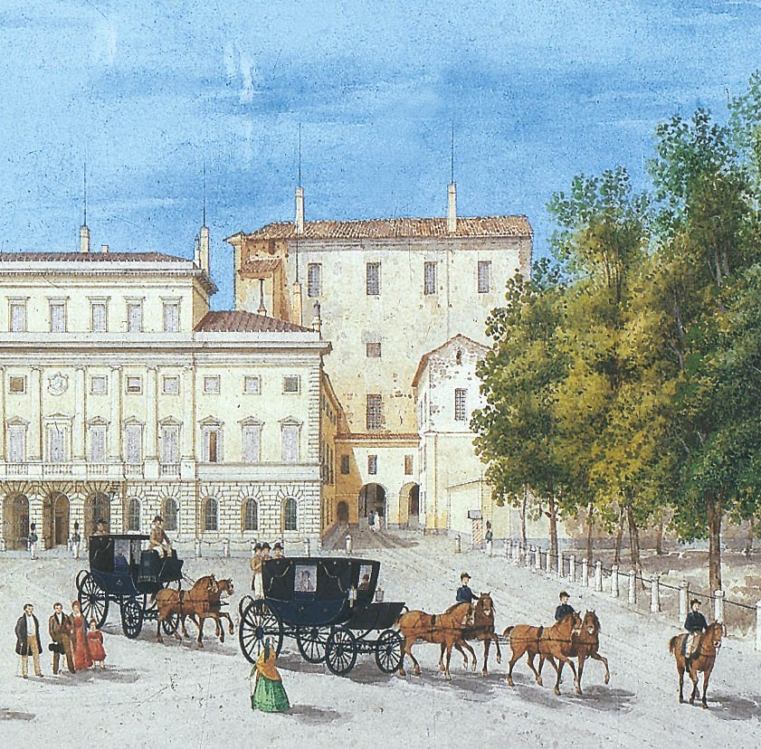 Detail of watercolour "Veduta del Palazzo Ducale e della Pilotta", by Giuseppe Alinovi.